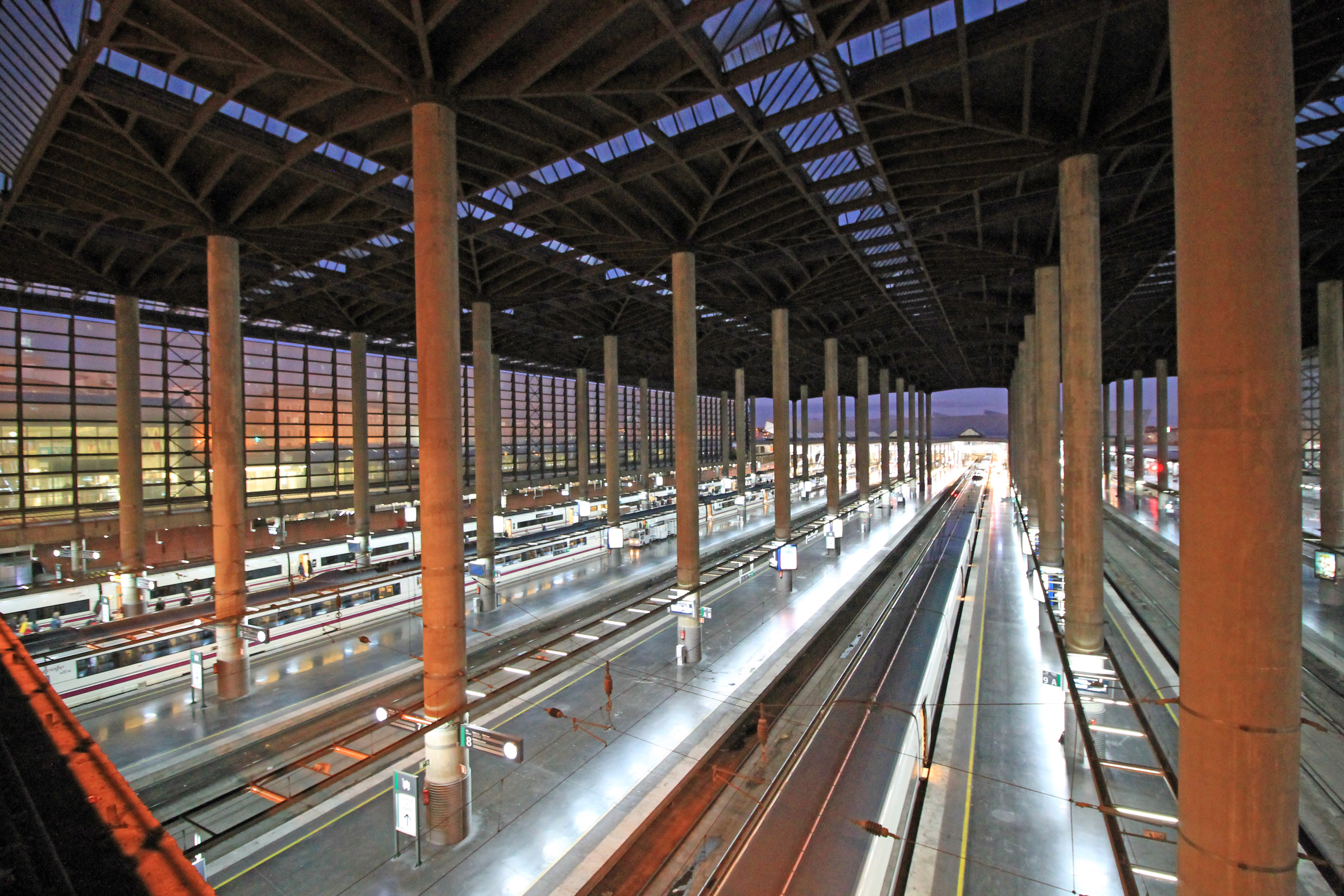 Interior of Atocha station in Madrid (Spain).